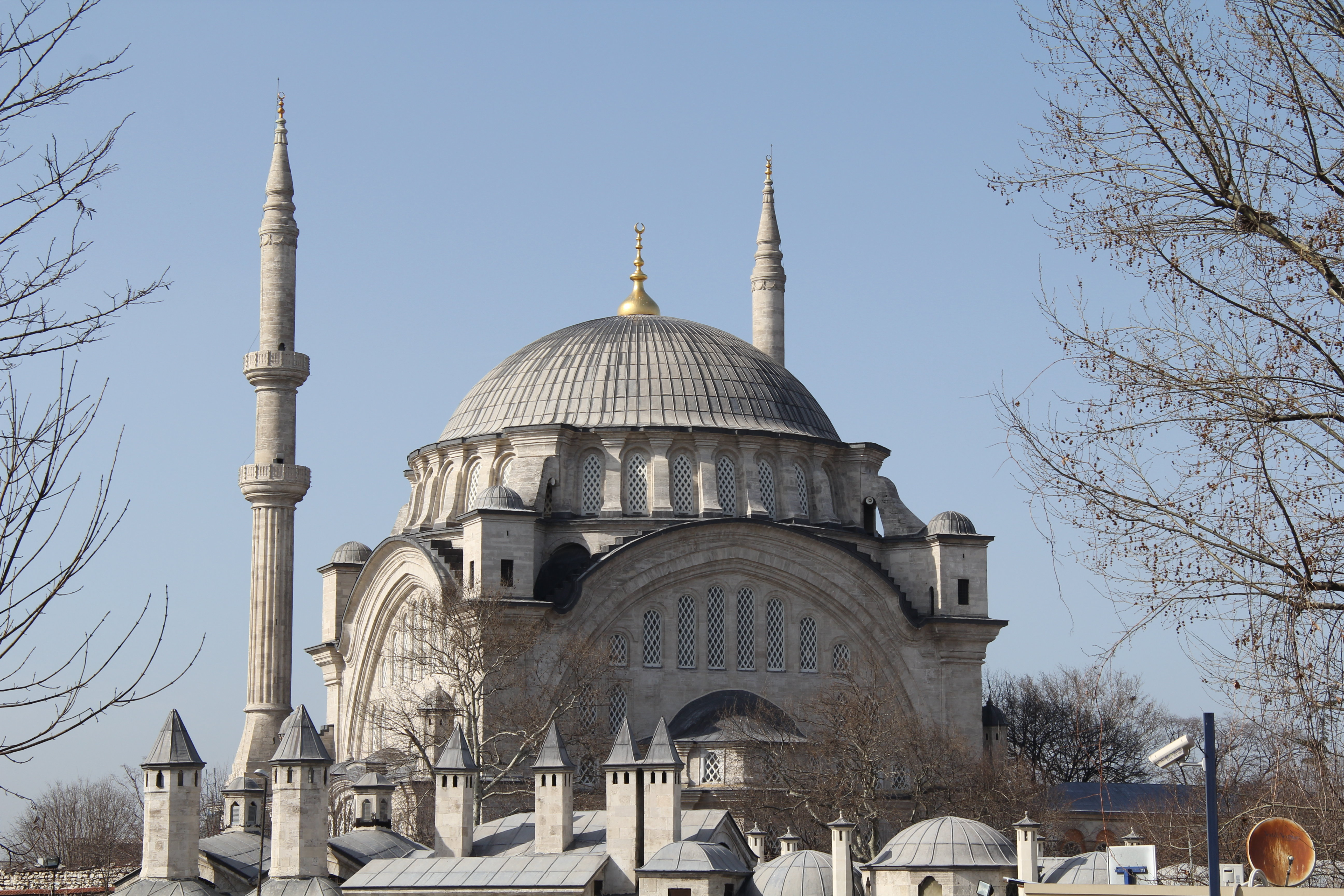 Nuruosmaniye Mosque in Istanbul, Turkey